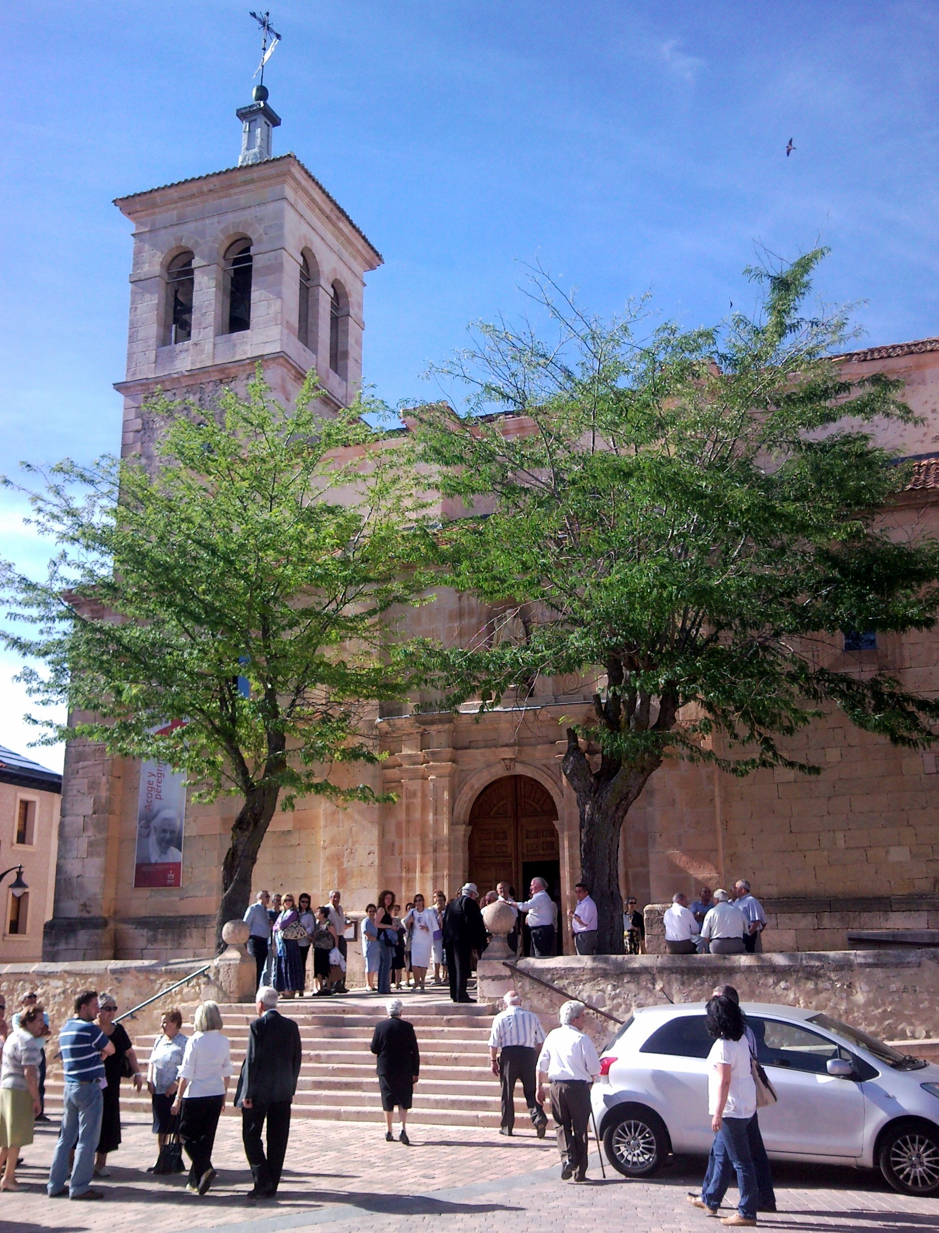 Church of St. Andrew in Cantalejo, Segovia, Spain.